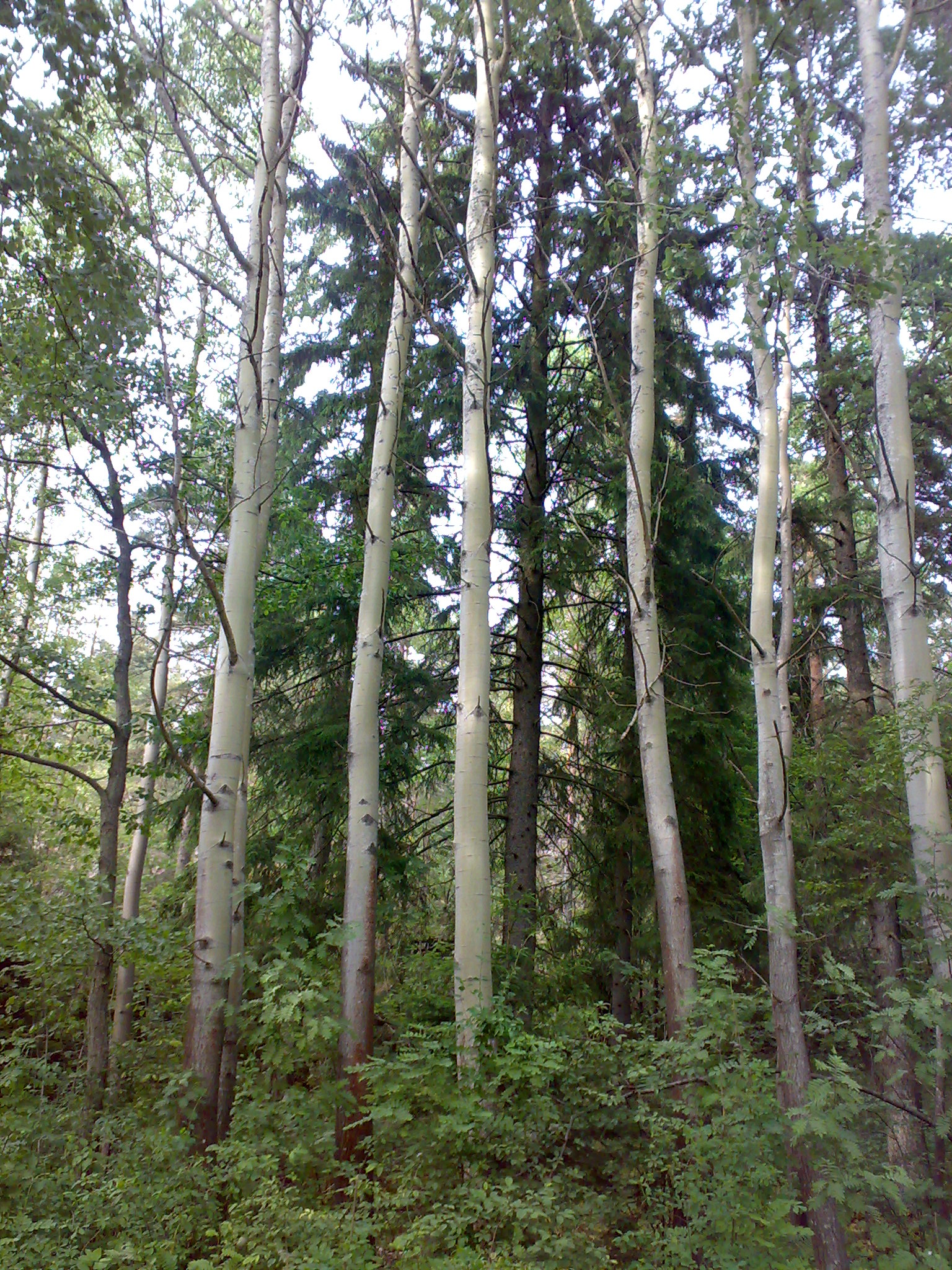 Aspen